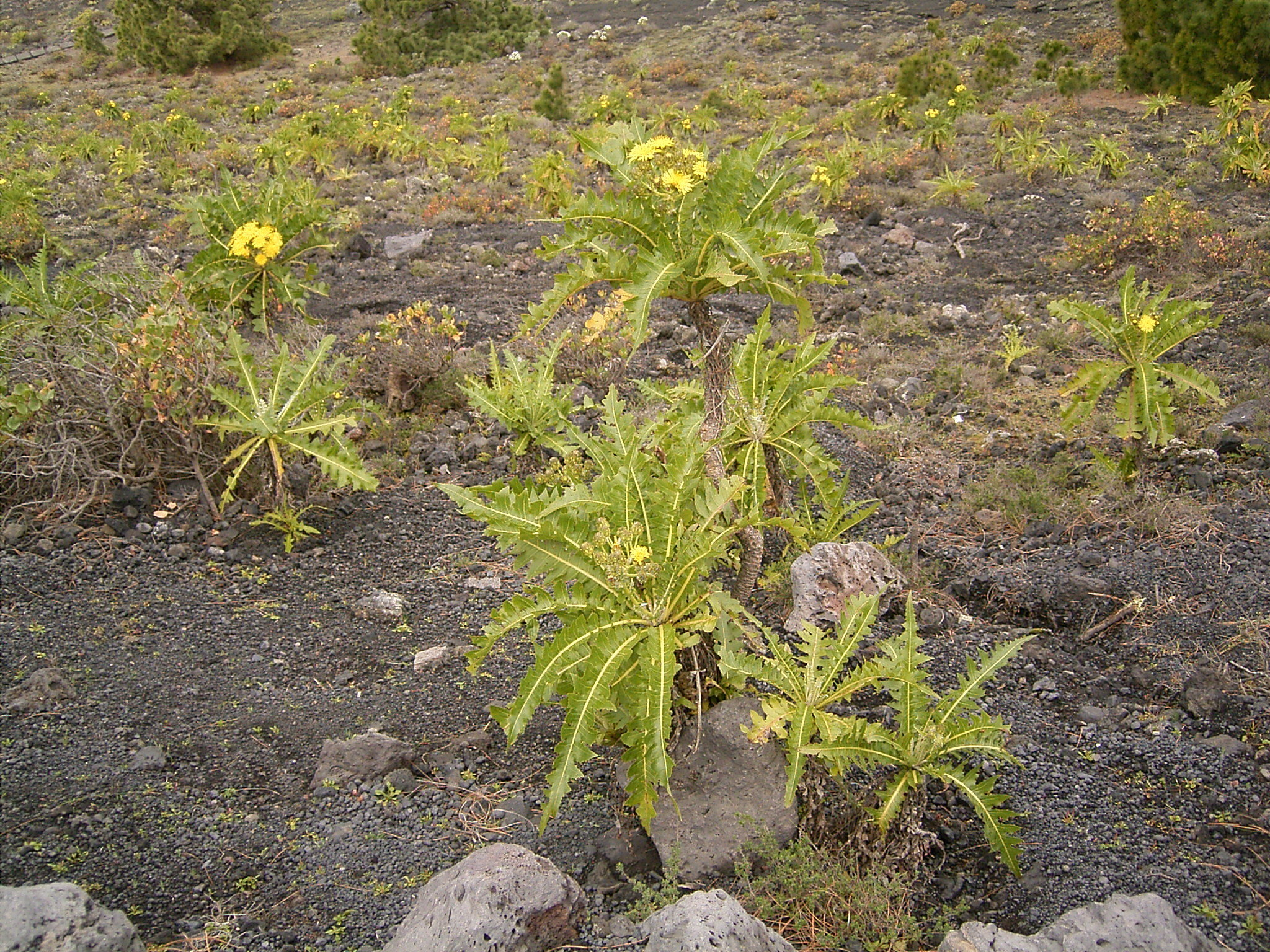 Sonchus canariensis growing on volcano San Antonio in Fuencaliente, La Palma, Canary Islands